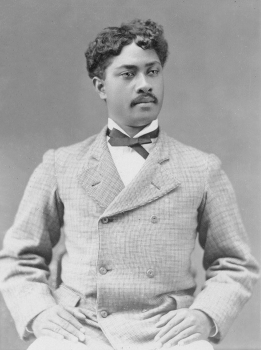 Prince William Pitt Leleiohoku II, photograph taken by Menzies Dickson.